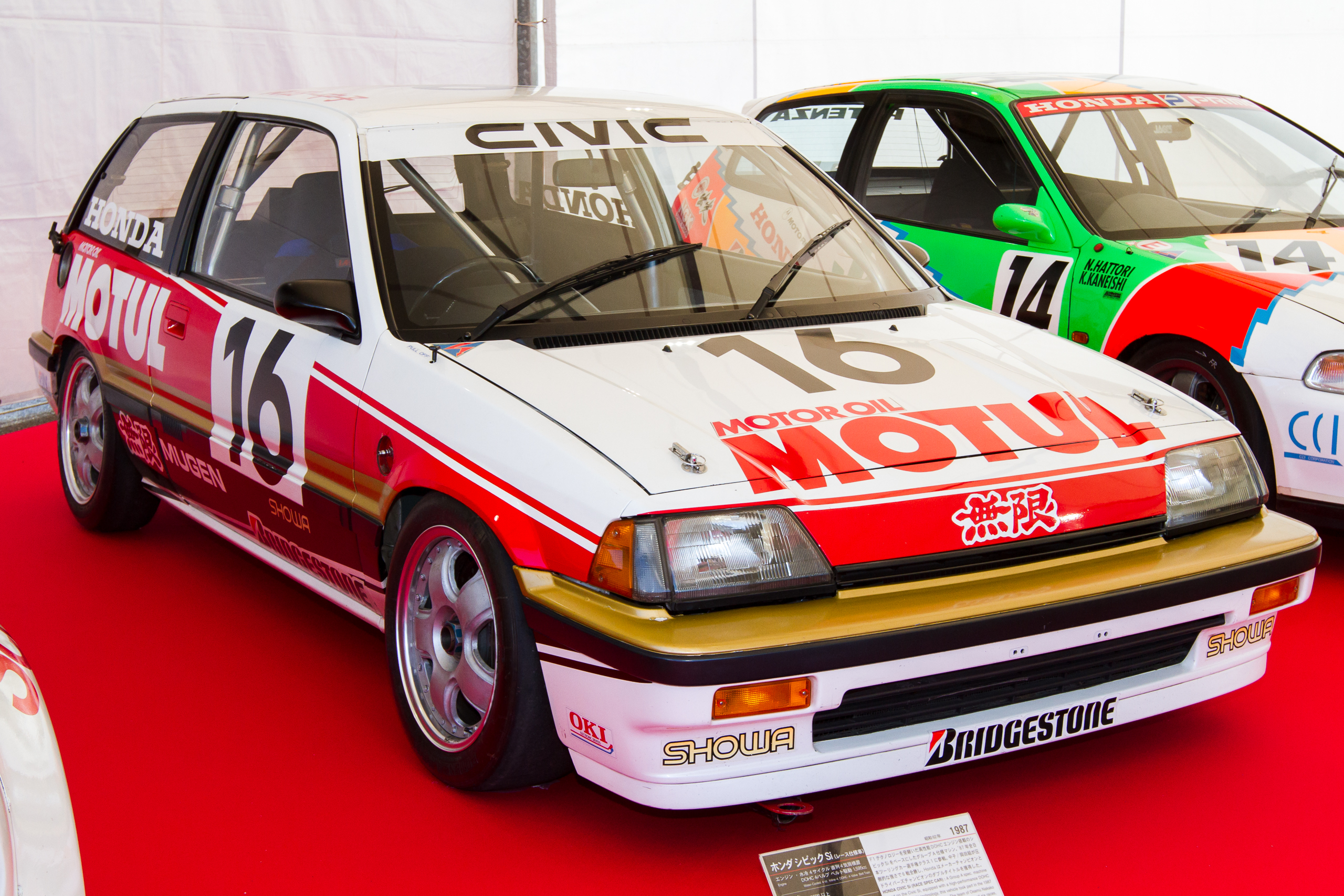 World Touring Car Championship 2012 Race of Japan: 1987 Honda Civic Si (E-AT) Group A